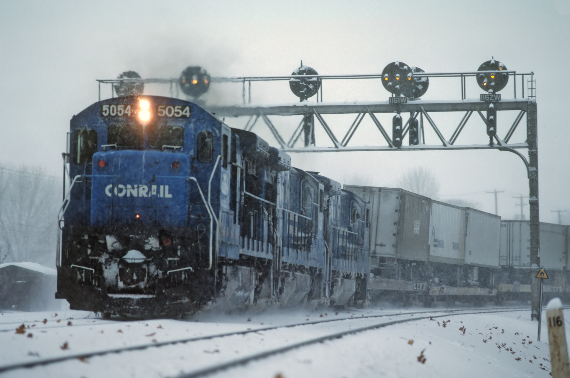 Roger Puta took these 4 Conrail photos on November 11, 1987.